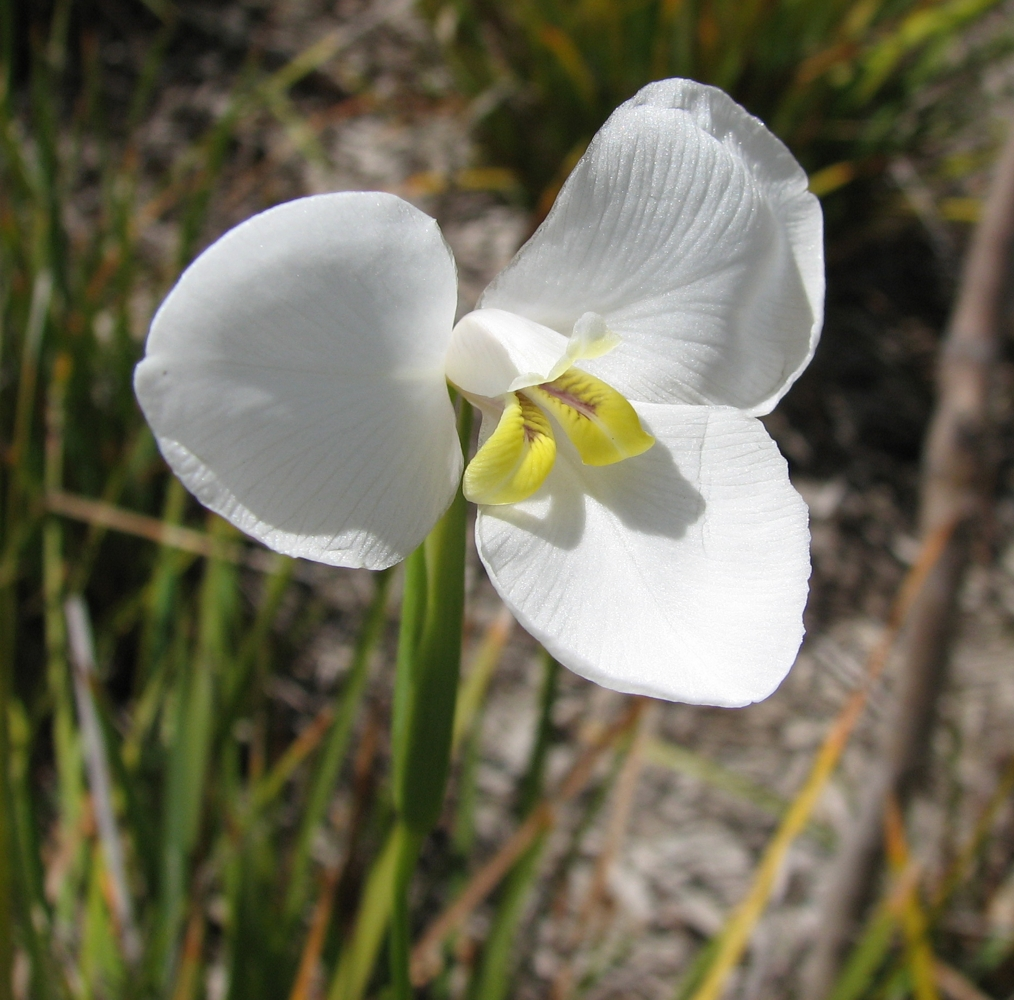 Diplarrena moraea (cultivated, labelled) Australian Garden, Royal Botanic Gardens Cranbourne, Victoria, Australia